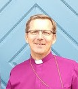 Jukka Keskitalo, bishop of Oulo diocese, Evangelical-Lutheran Church in Finland